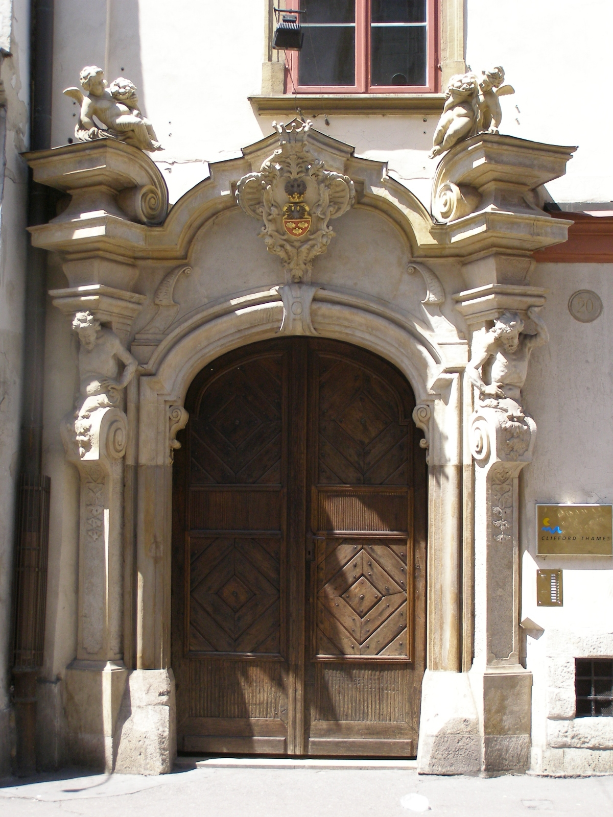 Kraków - the portal of the house at 20 św. Jana str.